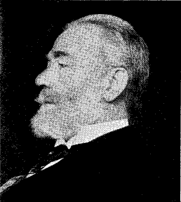 Swedish publicist Lars Hökerberg